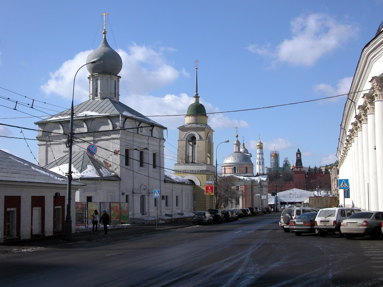 Varvarka Street in Moscow. Same view in 1886.